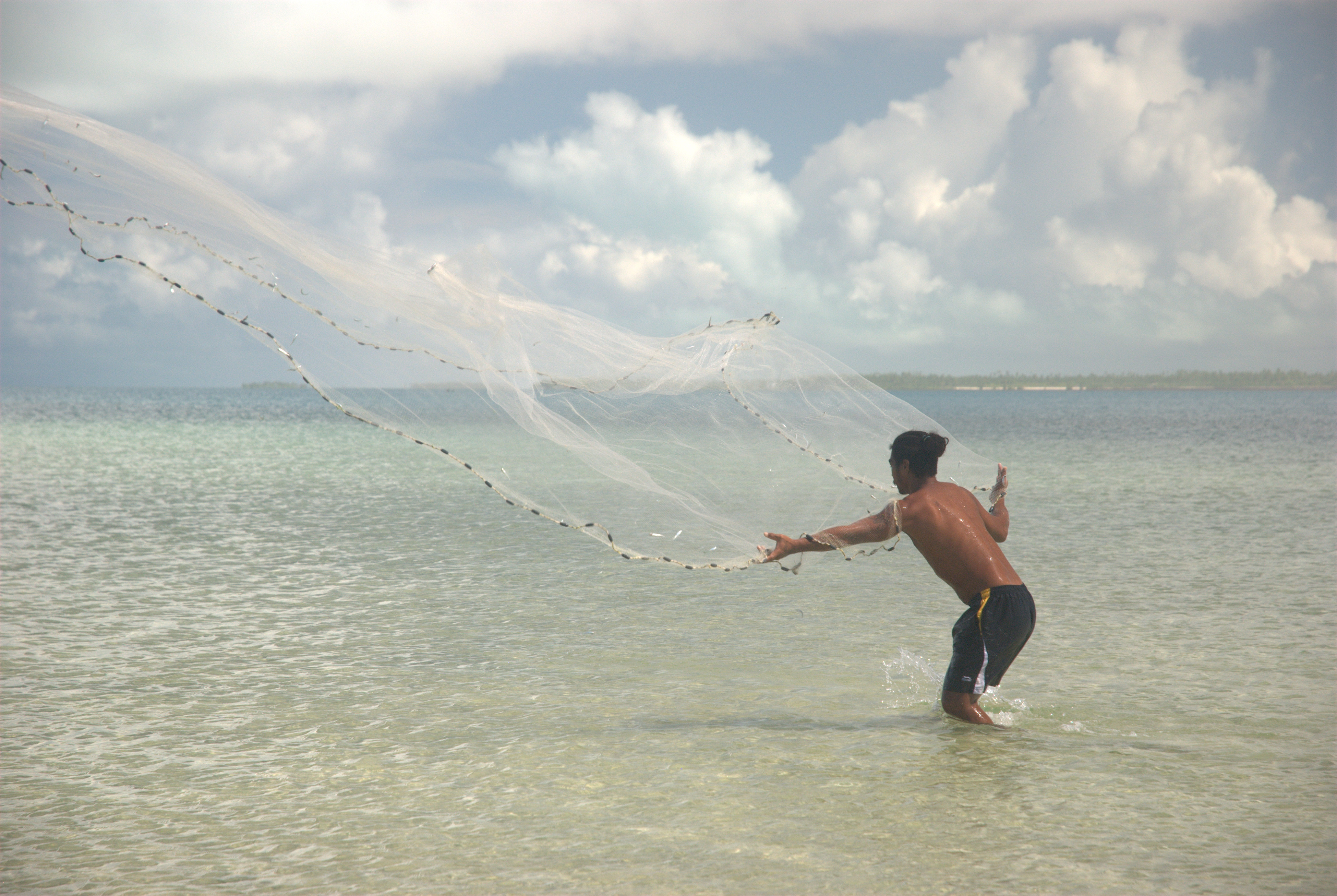 An artisanal net fisherman in a Kiribati lagoon. Australia is supporting several programmes in the Pacific to help protect fast depleting fish stocks. Photo: AusAID For a high resolution copy of this photo, please